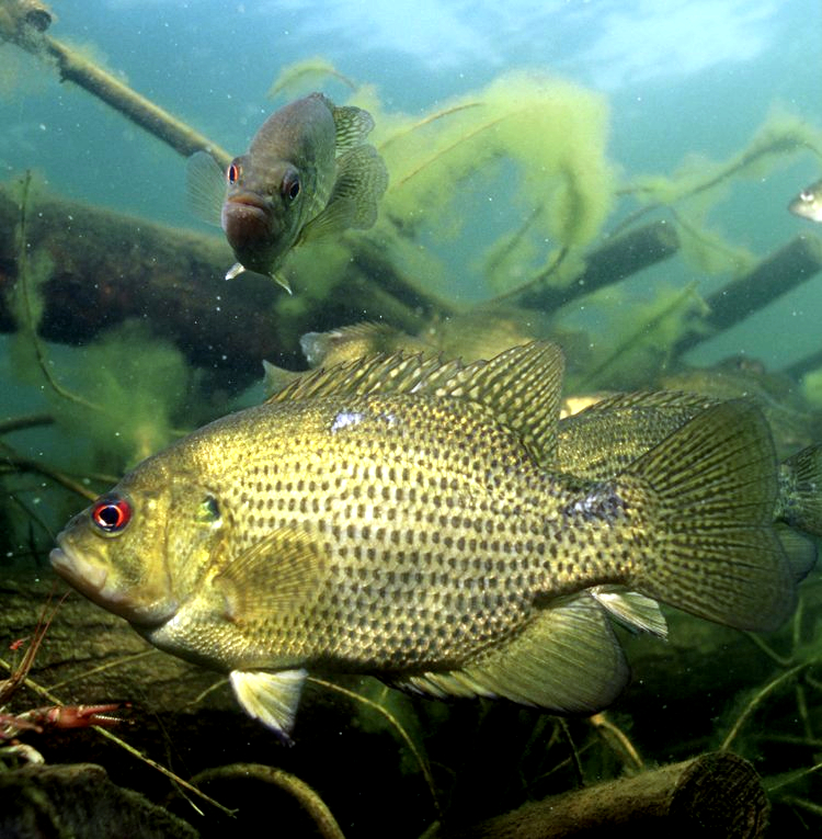 Rock bass (Ambloplites rupestris) Photo by Eric Engbretson. Licensing Source From U.S. Fish and Wildlife Service Digital Library System Summary Title: Rock Bass Alternative Title: Ambloplites rupestris Creator: Engbretson, Eric Source: WO-Engbretson-5753 Publisher: U.S. Fish and Wildlife Service Contributor: DIVISION OF PUBLIC AFFAIRS Rights: (public domain) Subject: Engbretson, Fish, Fishes, Animals, Animal, 5753 Available: May 20 2004 Issued: May 04 2004 Modified: May 20 2004 Ambloplites rupestris.jpg